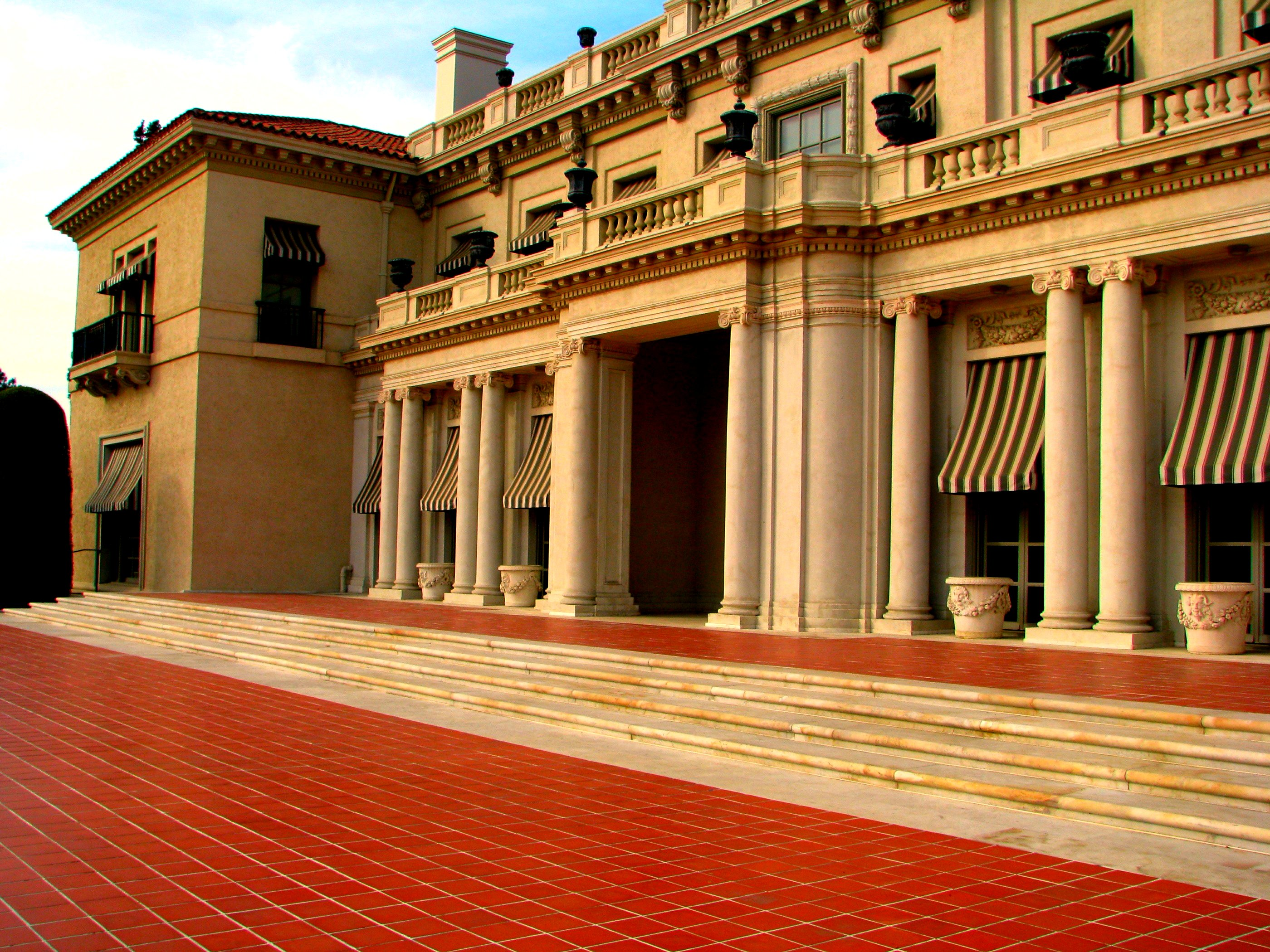 The outside of the main building on the grounds of the Huntington Library.